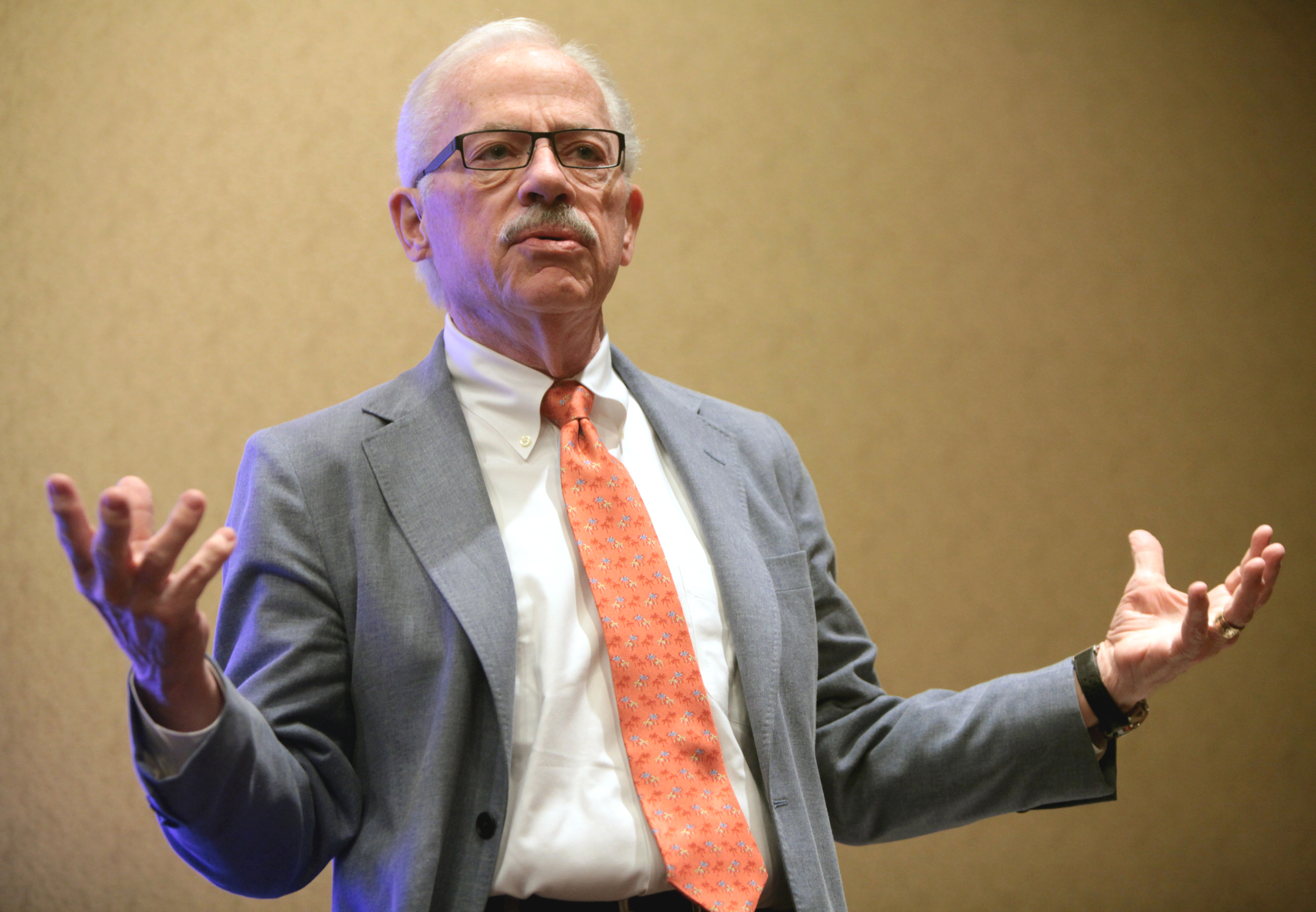 Bob Barr speaking at an event in Las Vegas, Nevada.